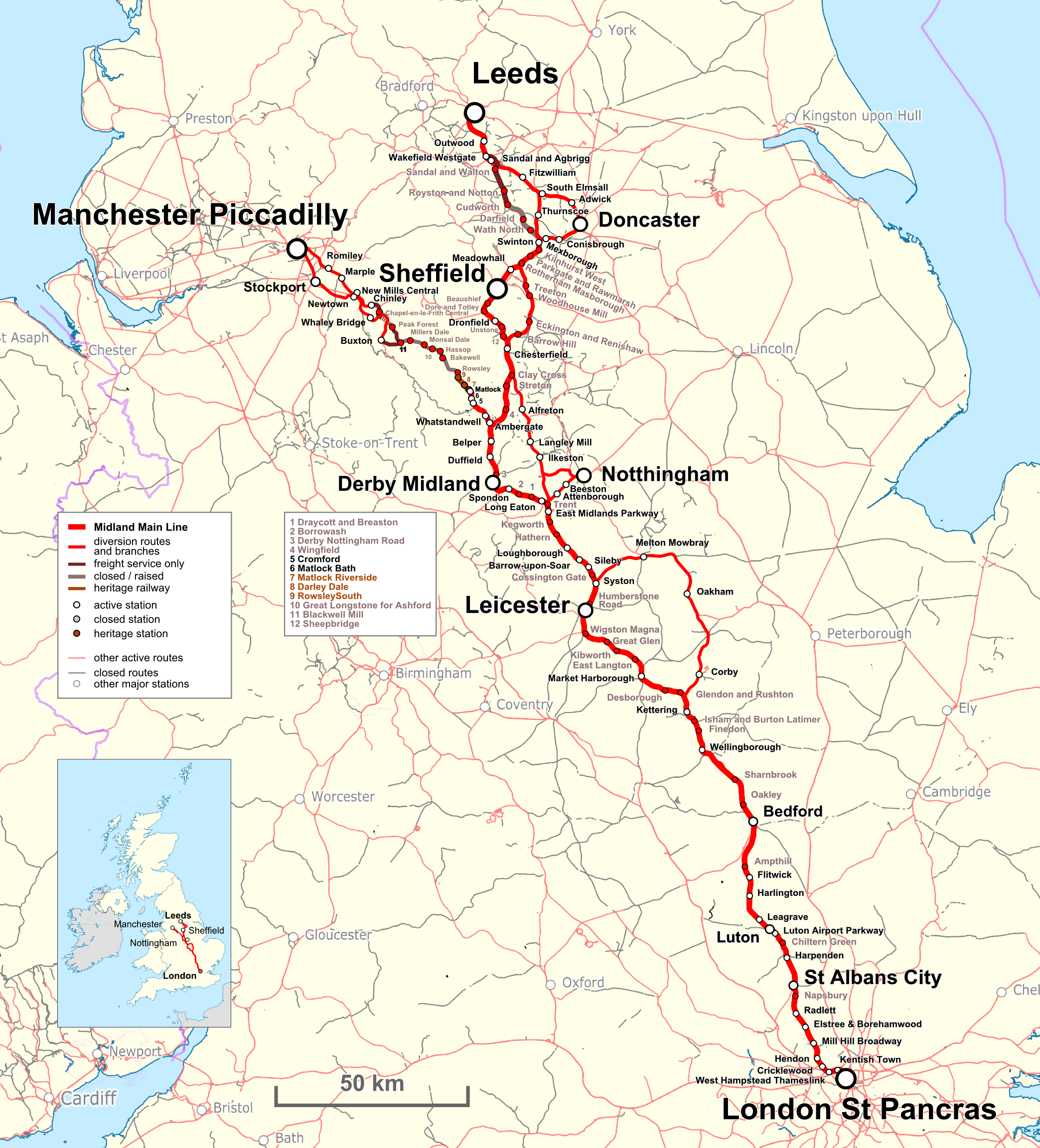 Map of the Midland Main Line in UK. Index in English